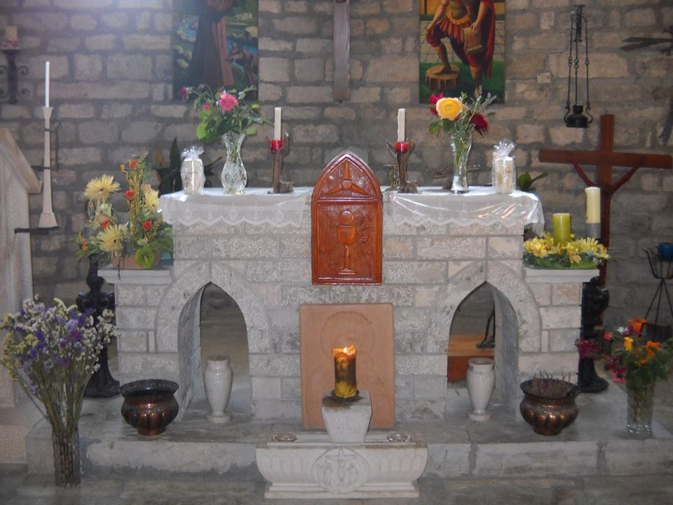 Altare della chiesa dell'eremo di San Leonardo al Volubrio